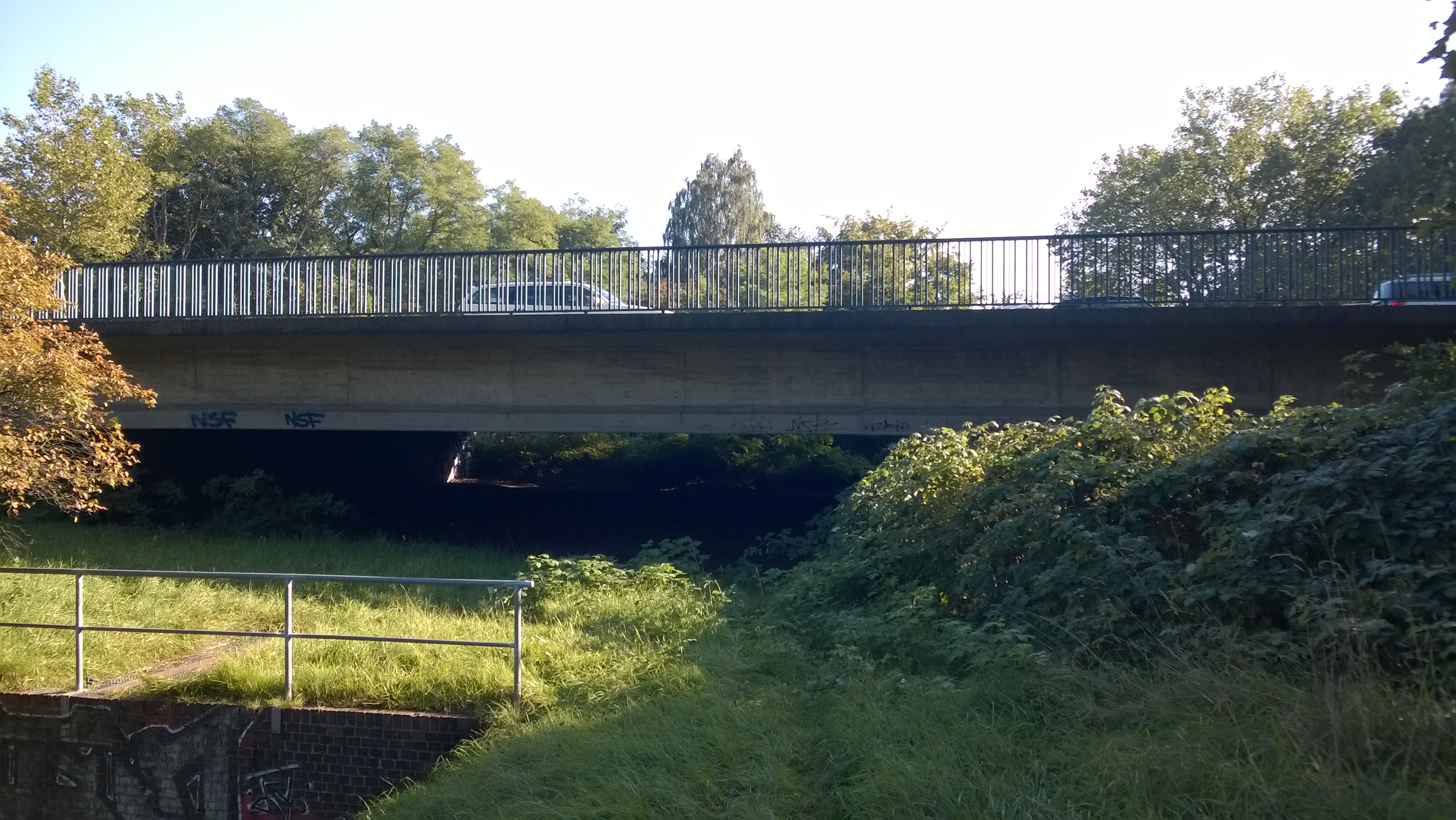 Brücke auf der Hebebrandstraße die als Bauvorleistung für die A25 Anbindung des Flughafens gebaut wurde. Die Autobahnplanungen wurden hingegen aufgegeben